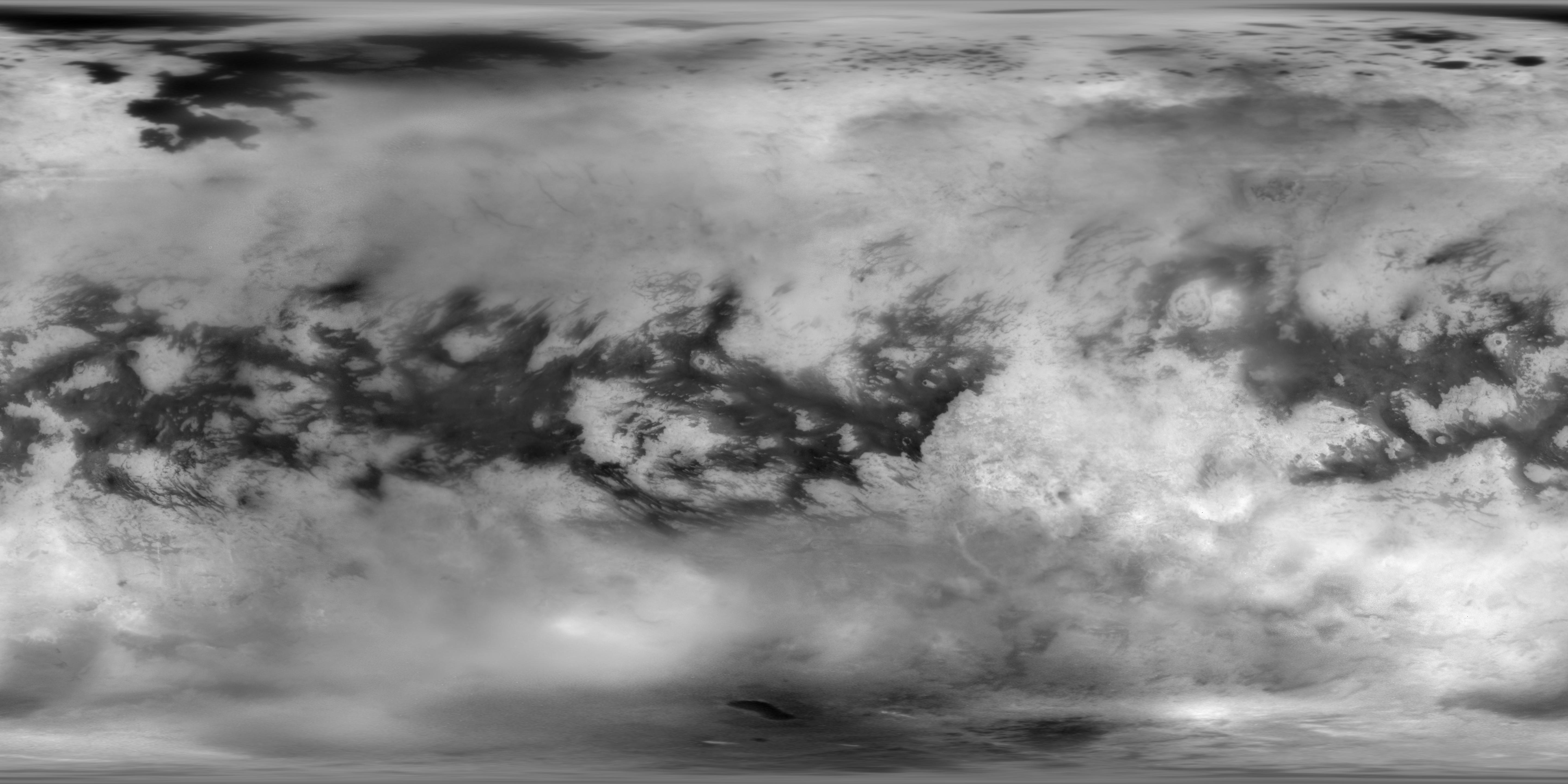 PIA22770: Titan Mosaic: The Surface Under the Haze This global mosaic of Titan's surface was generated by combining 9,873 separate ISS images taken by NASA's Cassini spacecraft over more than 13 years of Cassini operations at Saturn. This Cassini Imaging Science Subsystem (ISS) global mosaic of Titan's surface brightness in the near-infrared at 938 nm wavelength shows the distribution of Titan's wide variety of landforms, from the vast equatorial sand seas to the high-latitude lakes and seas of liquid hydrocarbons. To generate this mosaic, 9,873 separate ISS images taken over more than 13 years of NASA's Cassini spacecraft operations at Saturn have been combined. Averaging such a large number of images dramatically improves how well surface features can be seen. A new photometric analysis method, with more accurate radiative transfer models of Titan's haze, allows spatial and temporal atmospheric and instrumental variations to be accounted for. This technique makes it possible to generate a mosaic without image seams that provides calibrated normal albedos. The image scale is 16 pixels per degree or 2.8 km in latitude. The new image is an update to the previous version of the ISS imaging map of Titan. The most recent version was published in 2015. 2015: 2011: 2009: 2007: 2006: 2005: 2004: The Cassini mission is a cooperative project of NASA, ESA (the European Space Agency) and the Italian Space Agency. The Jet Propulsion Laboratory, a division of Caltech in Pasadena, manages the mission for NASA's Science Mission Directorate, Washington. The Cassini orbiter and its two onboard cameras were designed, developed and assembled at JPL. For more information about the Cassini-Huygens mission visit and The Cassini imaging team homepage is at